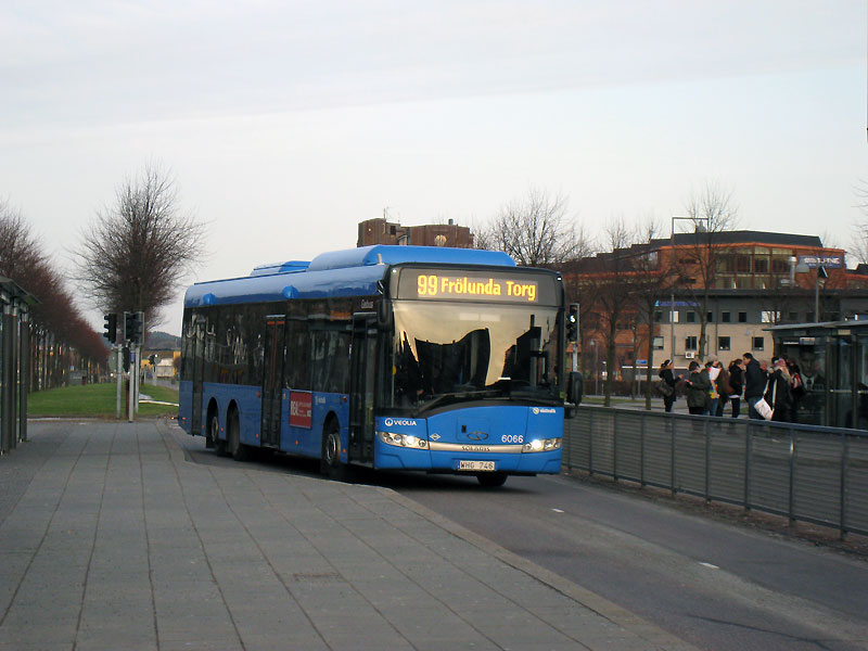 Solaris Urbino 15 LE CNG bus (#6066, reg. WHG 746) in Göteborg, Sweden. Built 2010, Veolia Transport Sverige AB from Göteborg operator.